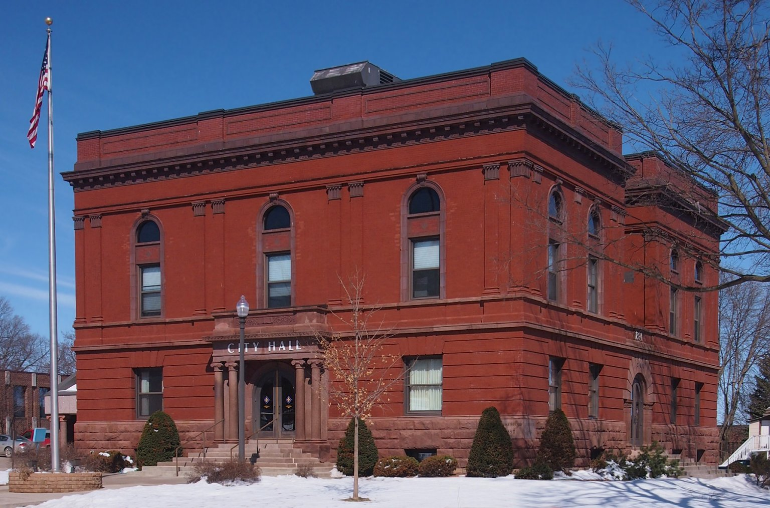 Faribault City Hall, 208 First Avenue N.W., Faribault, Minnesota, United States, viewed from the southeast